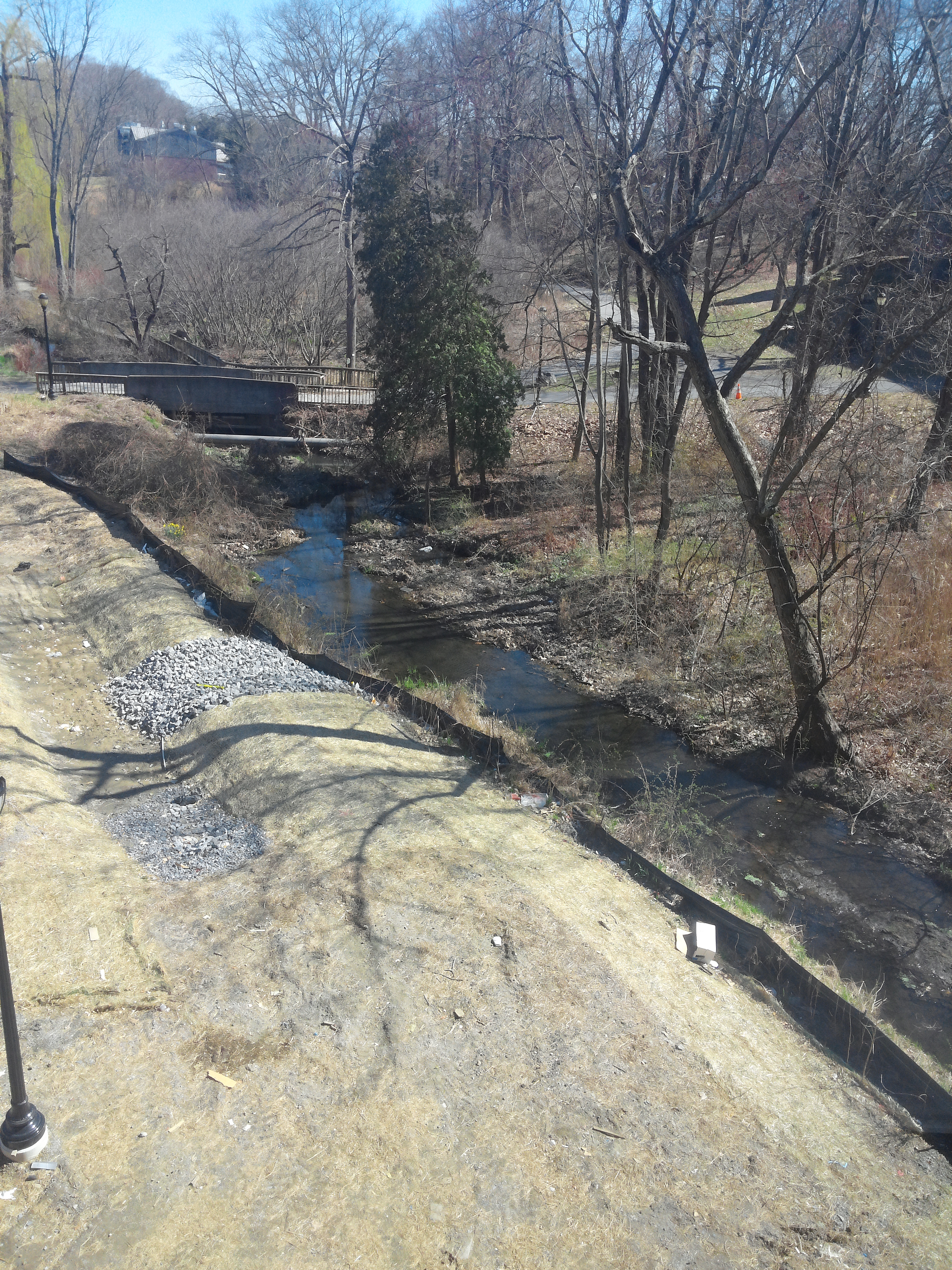 The Fonteynkill looking downstream from the first floor of the Bridge for Laboratory Sciences on the campus of Vassar College in the town of Poughkeepsie, New York, US.